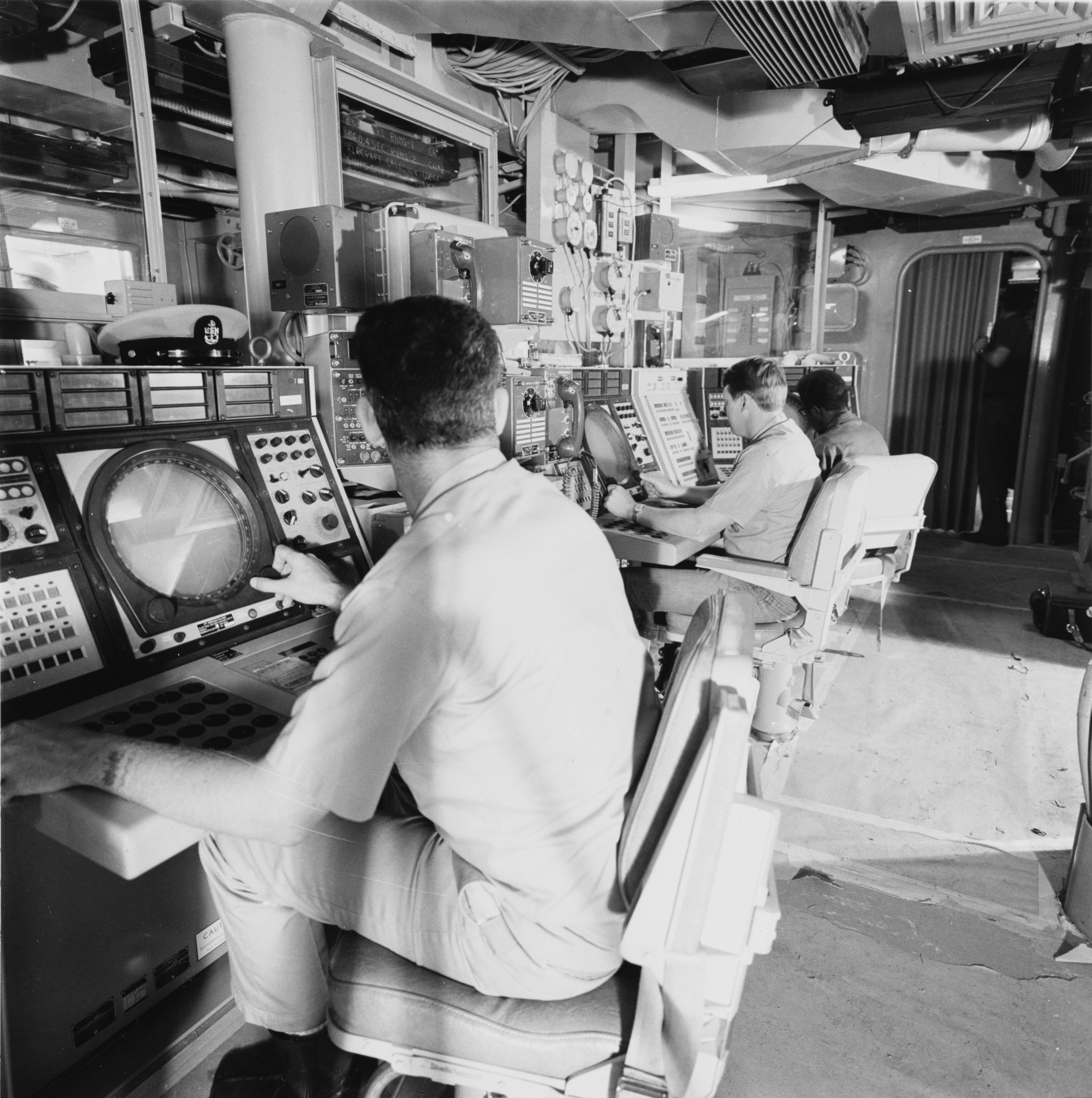 View in the Combat Information Center (CIC) of the U.S. Navy destroyer USS Spruance (DD-963), during her trials period. Note the protective paper covering on the deck to keep it undamaged until the ship has been formally delivered to the U.S. Navy. The photograph was received in May 1975.